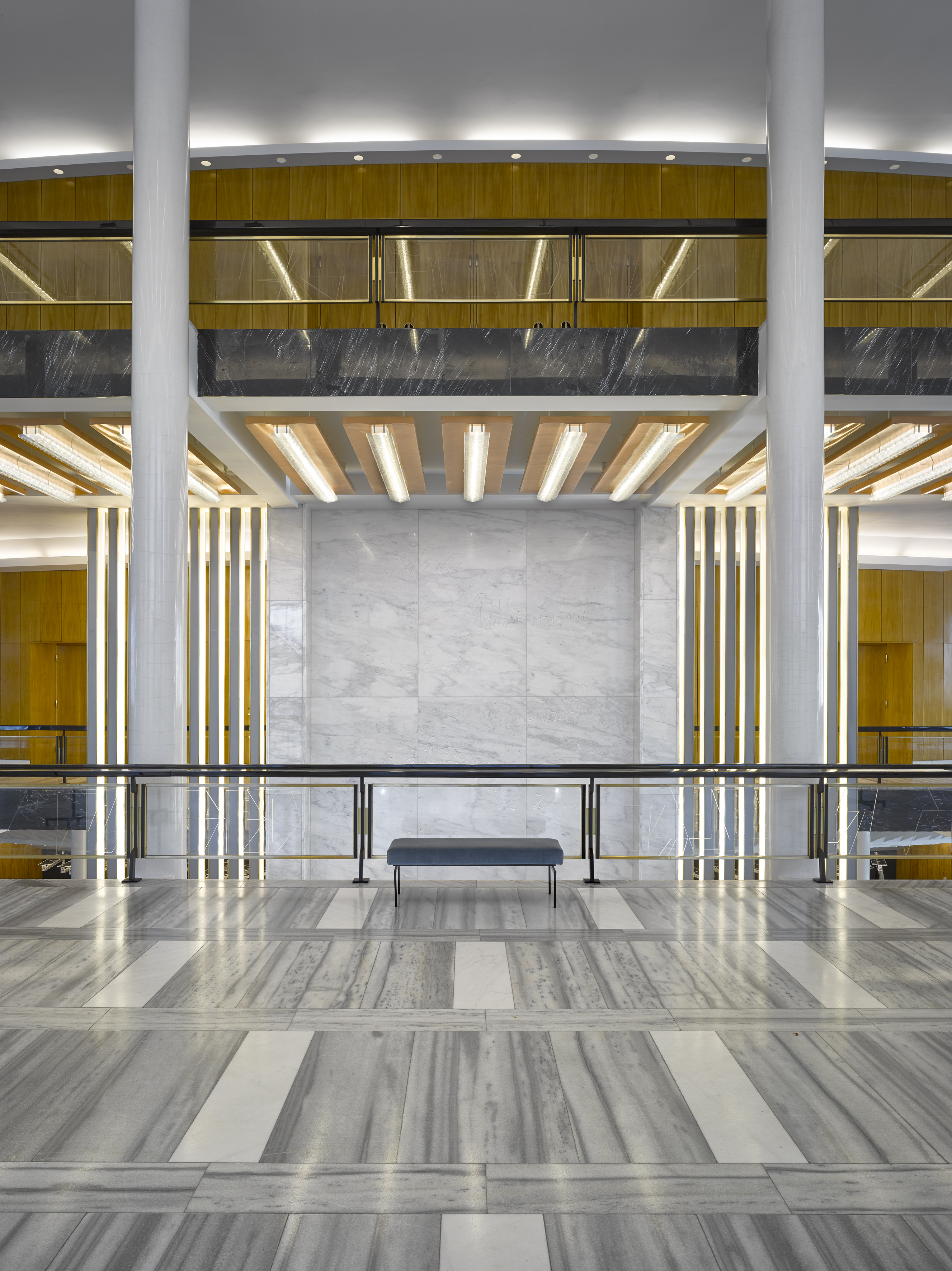 Janackovo divadlo, Brno